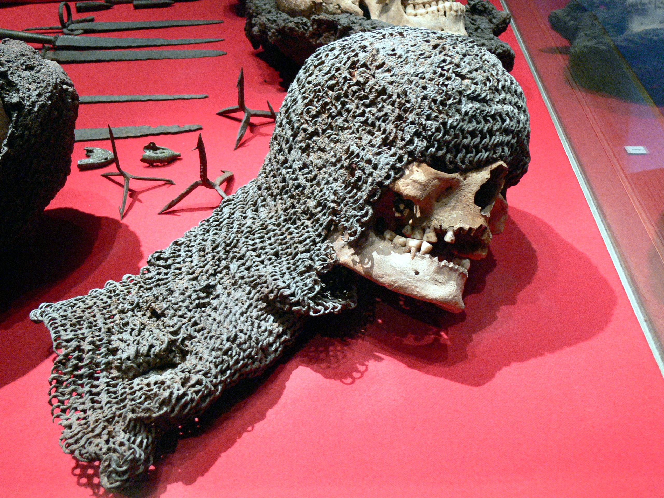 Fornsalen Museum, Visby ( Gotland ). Victim of Waldemar Atterdags invasion of Visby in 1361.